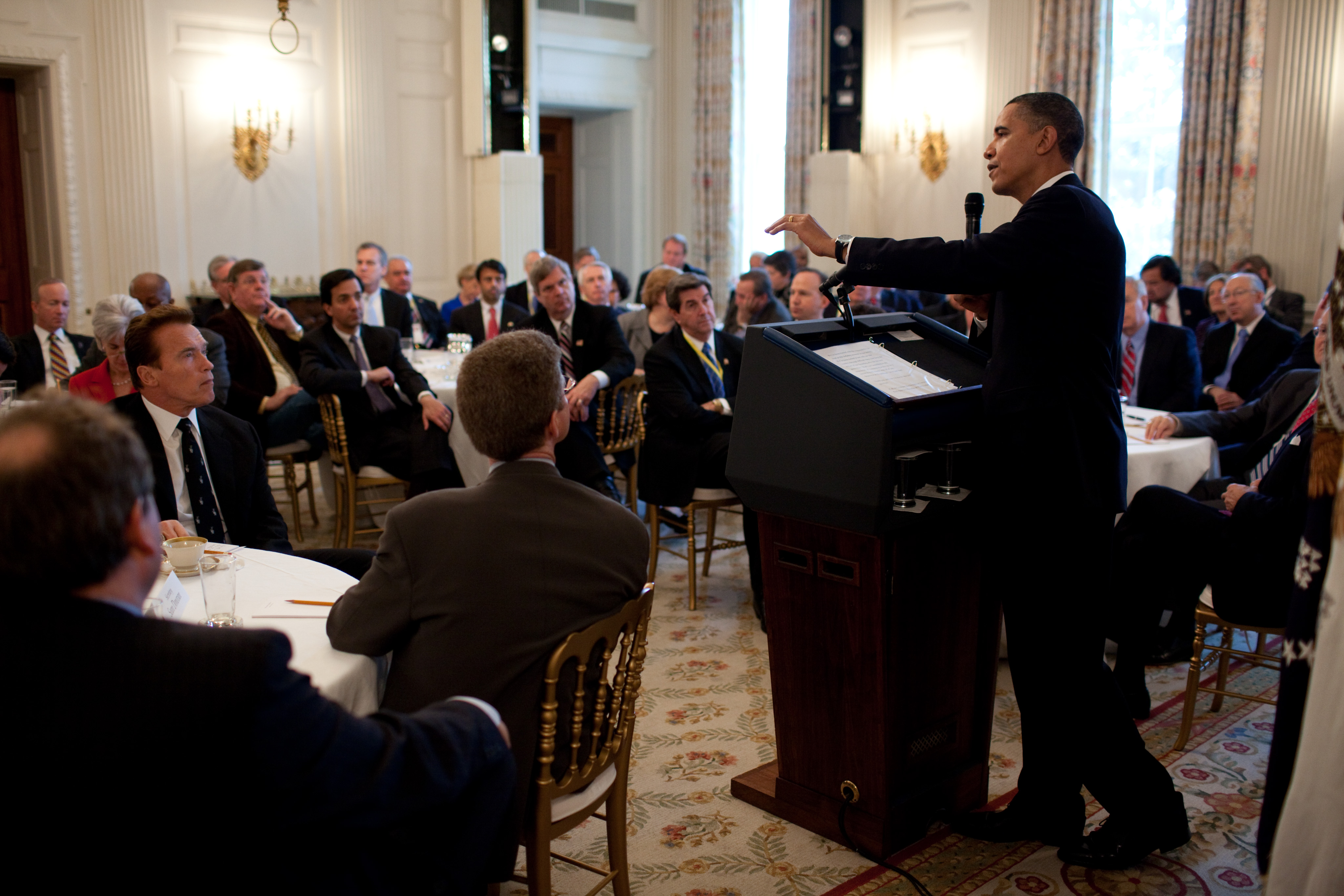 President Barack Obama answers questions from the National Governors Association in the State Dining Room of the White House, Feb. 22, 2010. (Official White House Photo by Pete Souza) This official White House photograph is in the public domain from a copyright perspective, so while restrictions such as personality or privacy rights may apply, in general, manipulations are allowed.